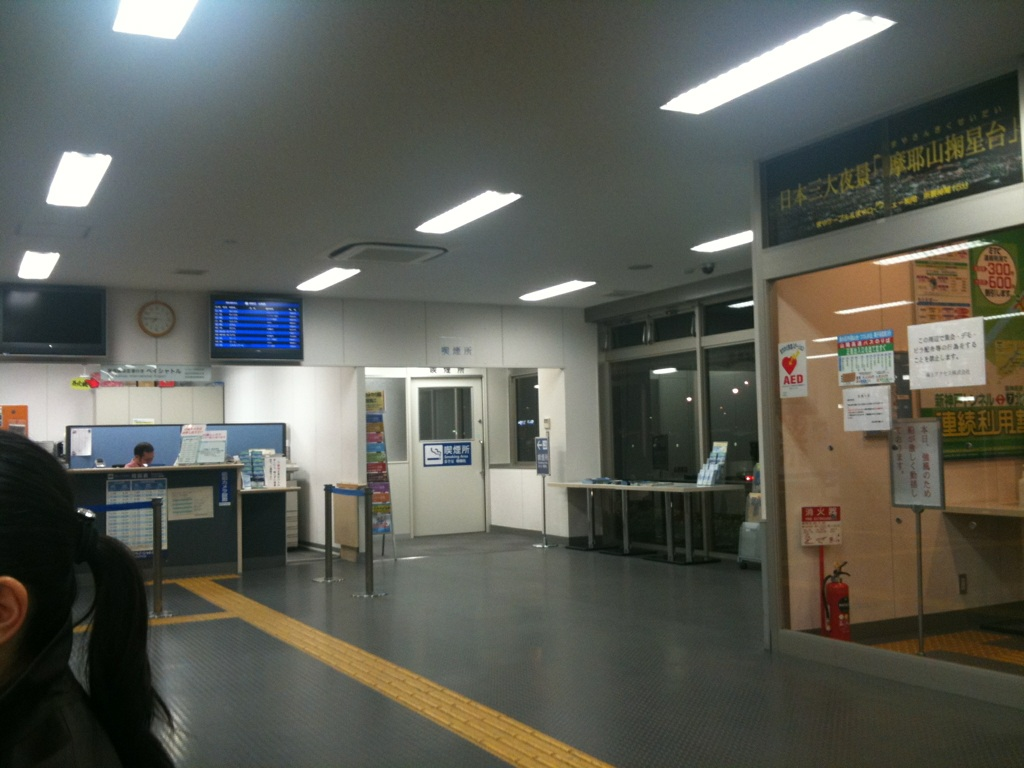 Bay shuttle terminal, Kobe Airport